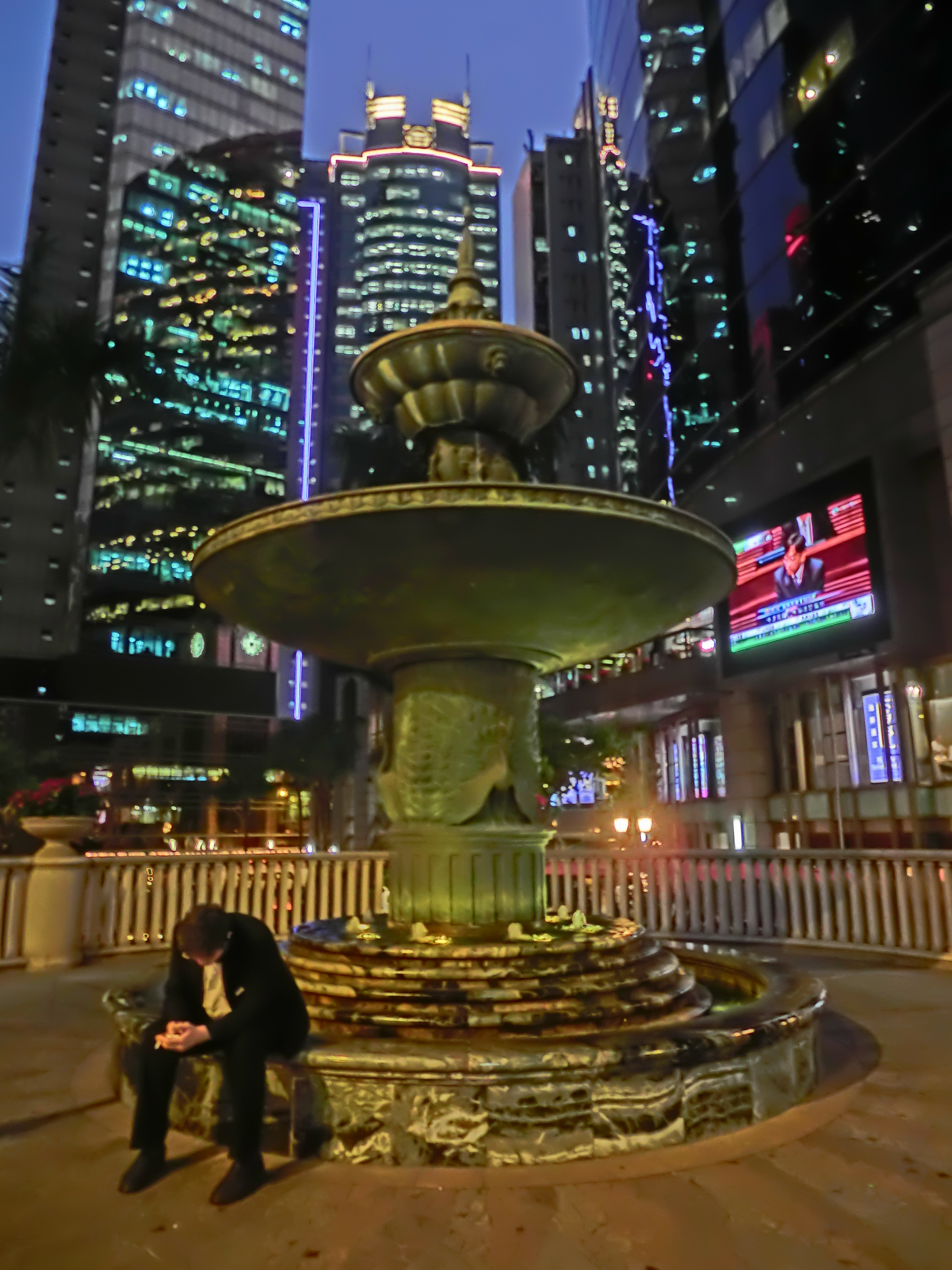 新紀元廣場, Grand Millennium Plaza, Sheung Wan, Hong Kong